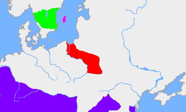 The red area is the extent of the Wielbark culture in the first half of the en:3rd century. The green area is the Przeworsk culture, the yellow area is a Baltic culture (Aesti?), and the pink area is the Debczyn Culture. The dark blue area is the Roman Empire My own map, based on User:Dbachmann's blank map. The extent of the Wielbark culture is based on Zbigniew Babik: "Najstarsza warstwa nazewnicza na ziemiach polskich" Cracow 2001. See also John Haywood, Cassell's Atlas of World History, Cassel Reference, 2001. pp. 1.21, 2.19.